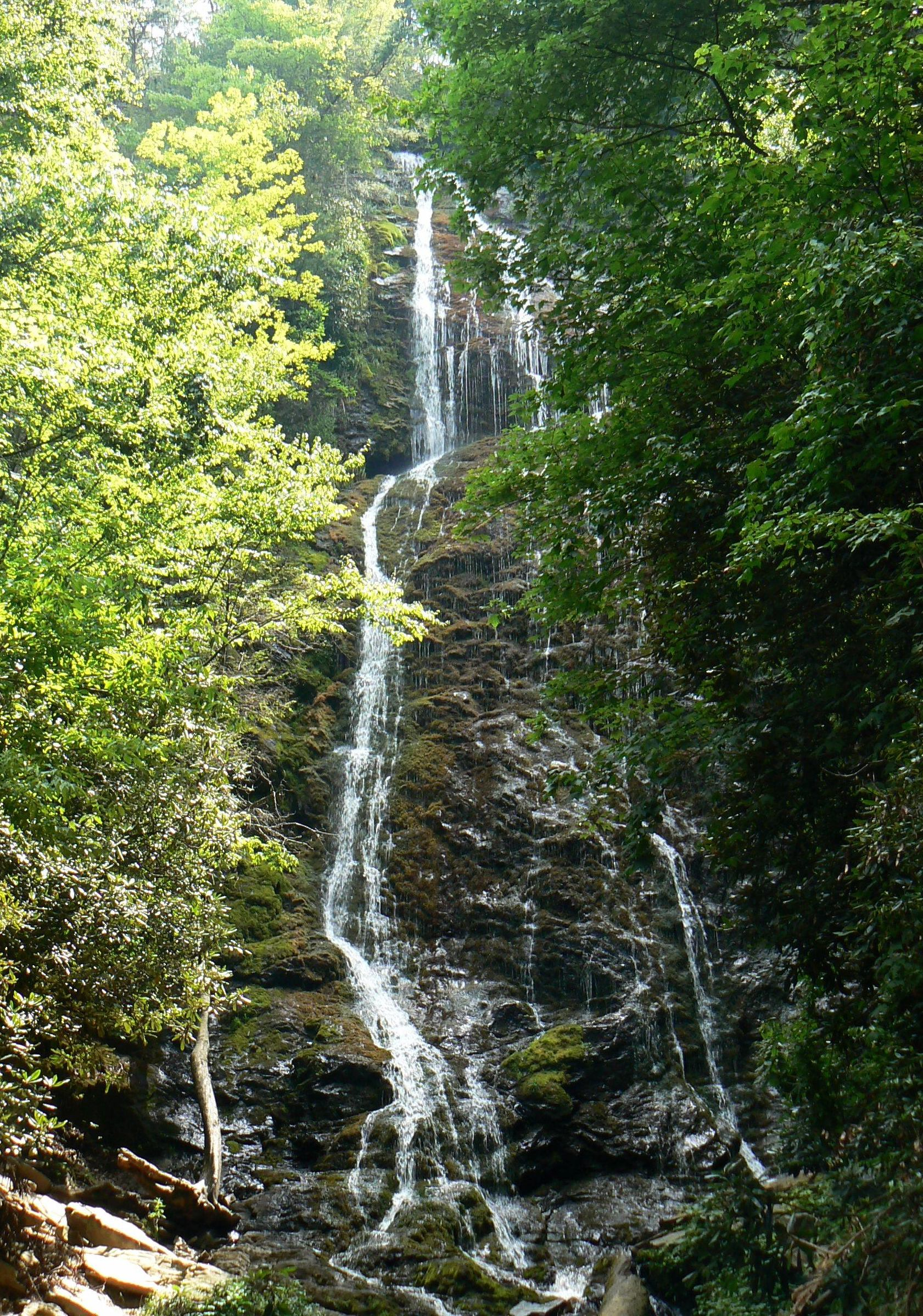 Mingo Falls (about 120 feet high) during moderately dry weather, near Cherokee, Swain Co., North Carolina.